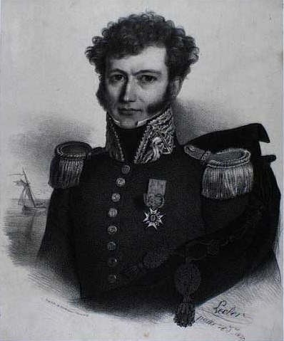 Johan Daniel Carl Ulysses Dirckinck-Holmfeld (1801-1887), Danish Baron and diplomat